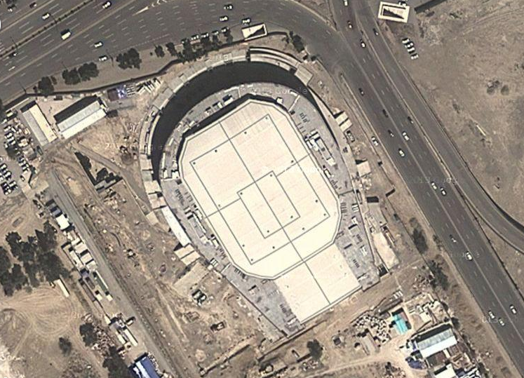 National Gymnastics Arena from Satellite.